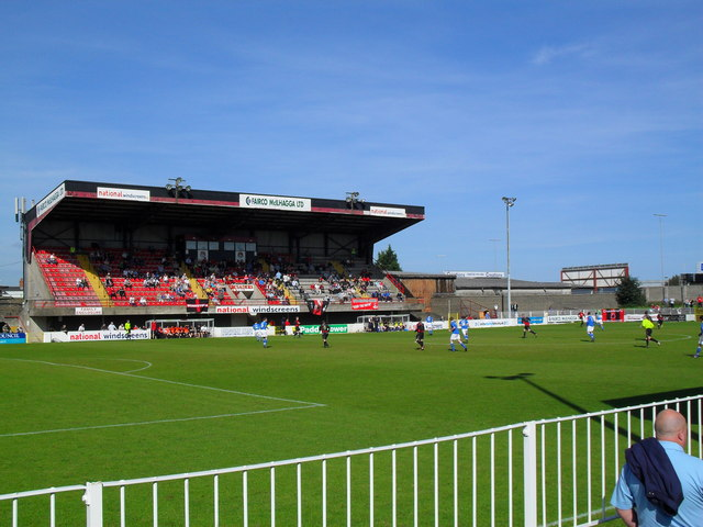 Seaview: Home of Crusaders F.C. Crusaders are a north Belfast outfit - based at Seaview on the Shore Road, adjacent to the Larne/'Derry railway line and the M2 motorway.